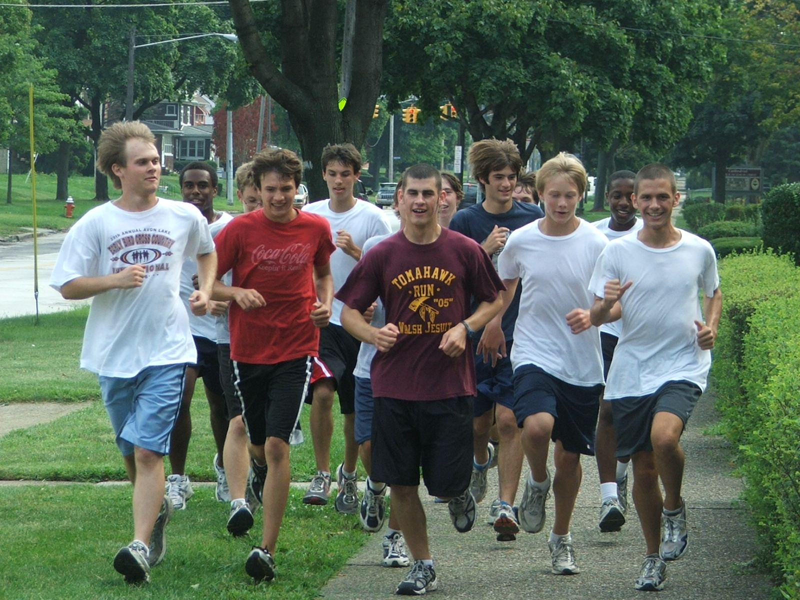 The Benedictine Crosscountry team